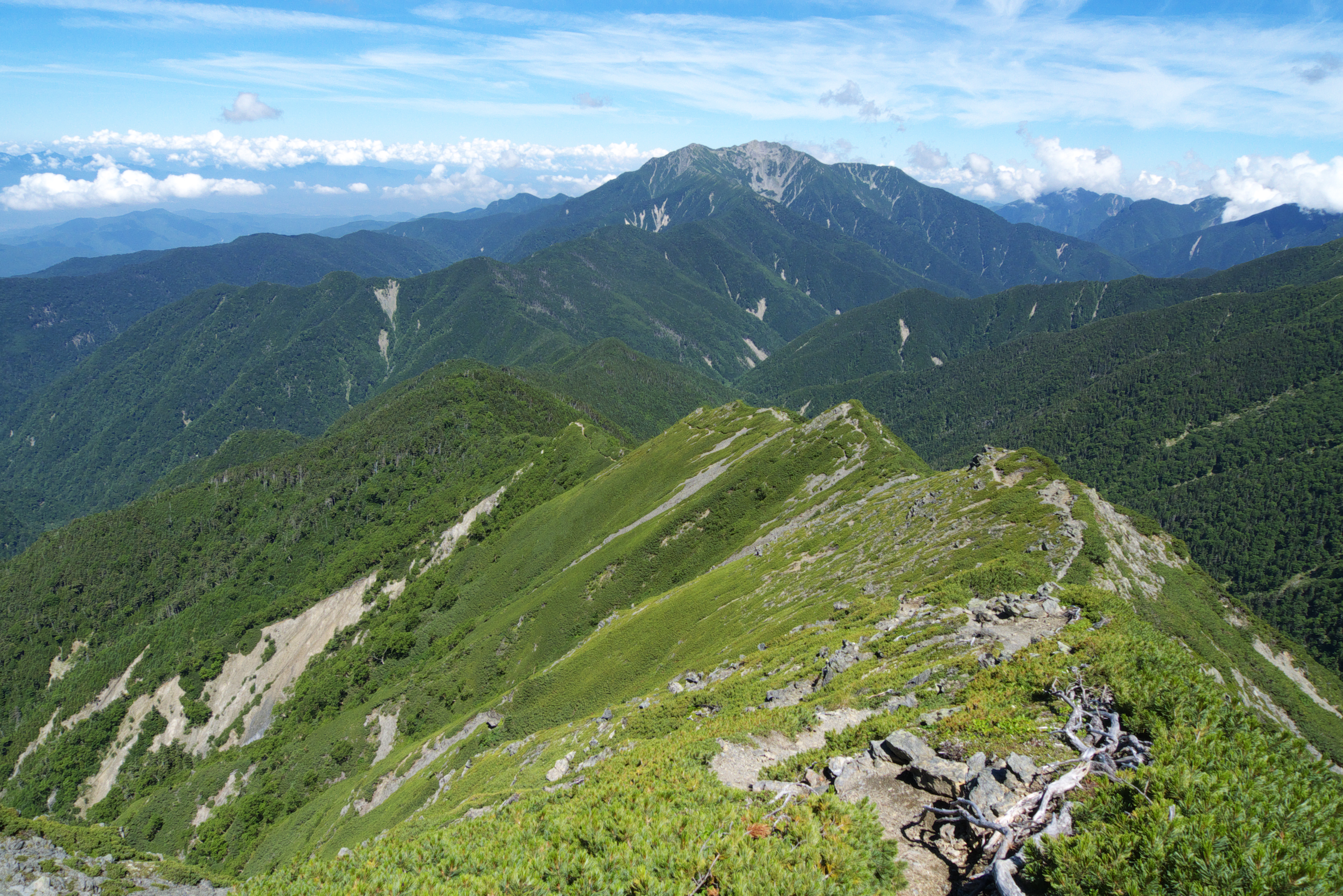 Senshio Ridge (Senshio one), one of the trails to Mount Senjo (top centre) in the Japanese South Alps, as seen from Mount Mibu